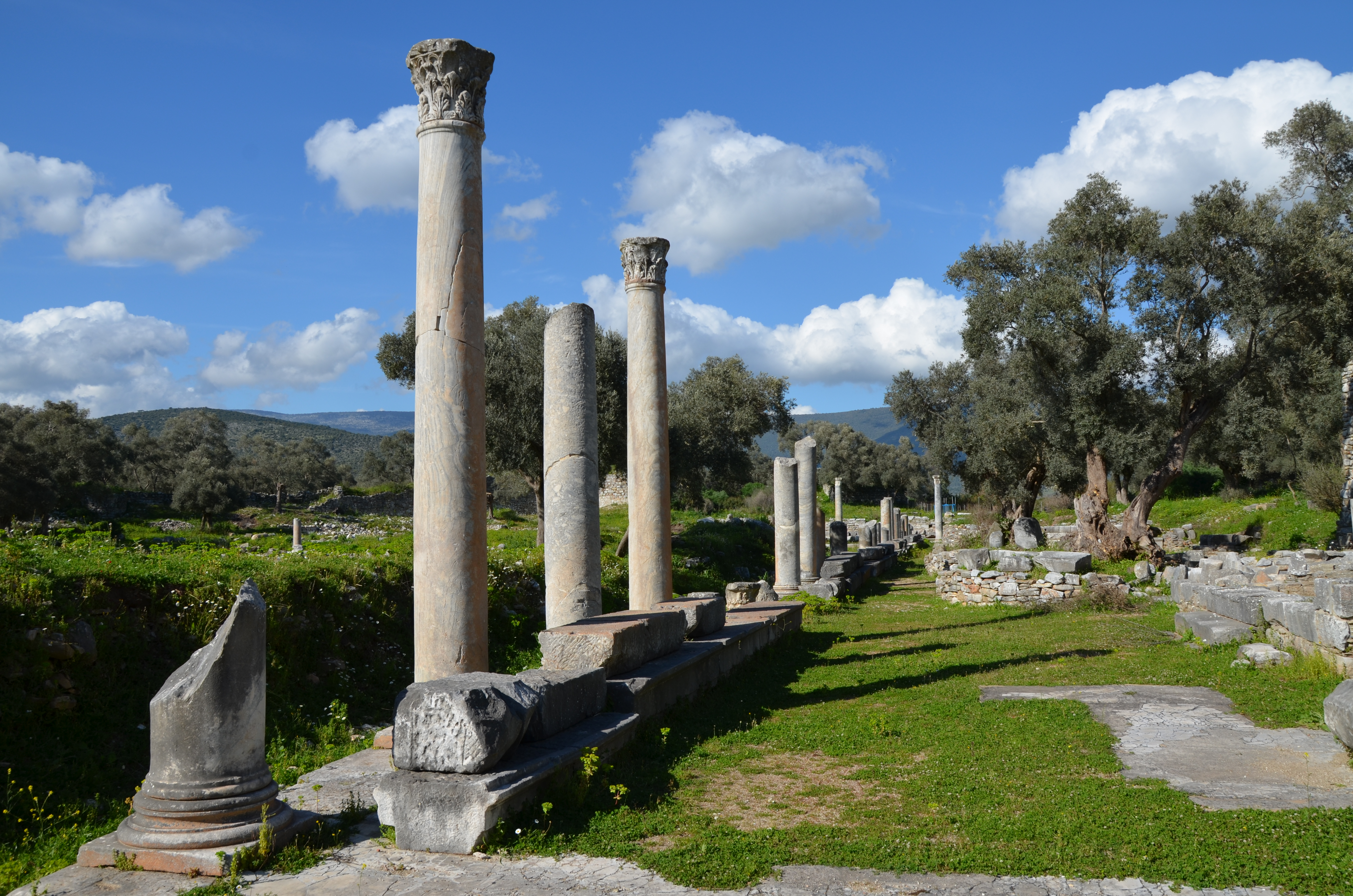 The Agora, reconstructed mainly during Hadrian’s time, its initial building must have started in the 4th century BC, Iassos, Caria, Turkey